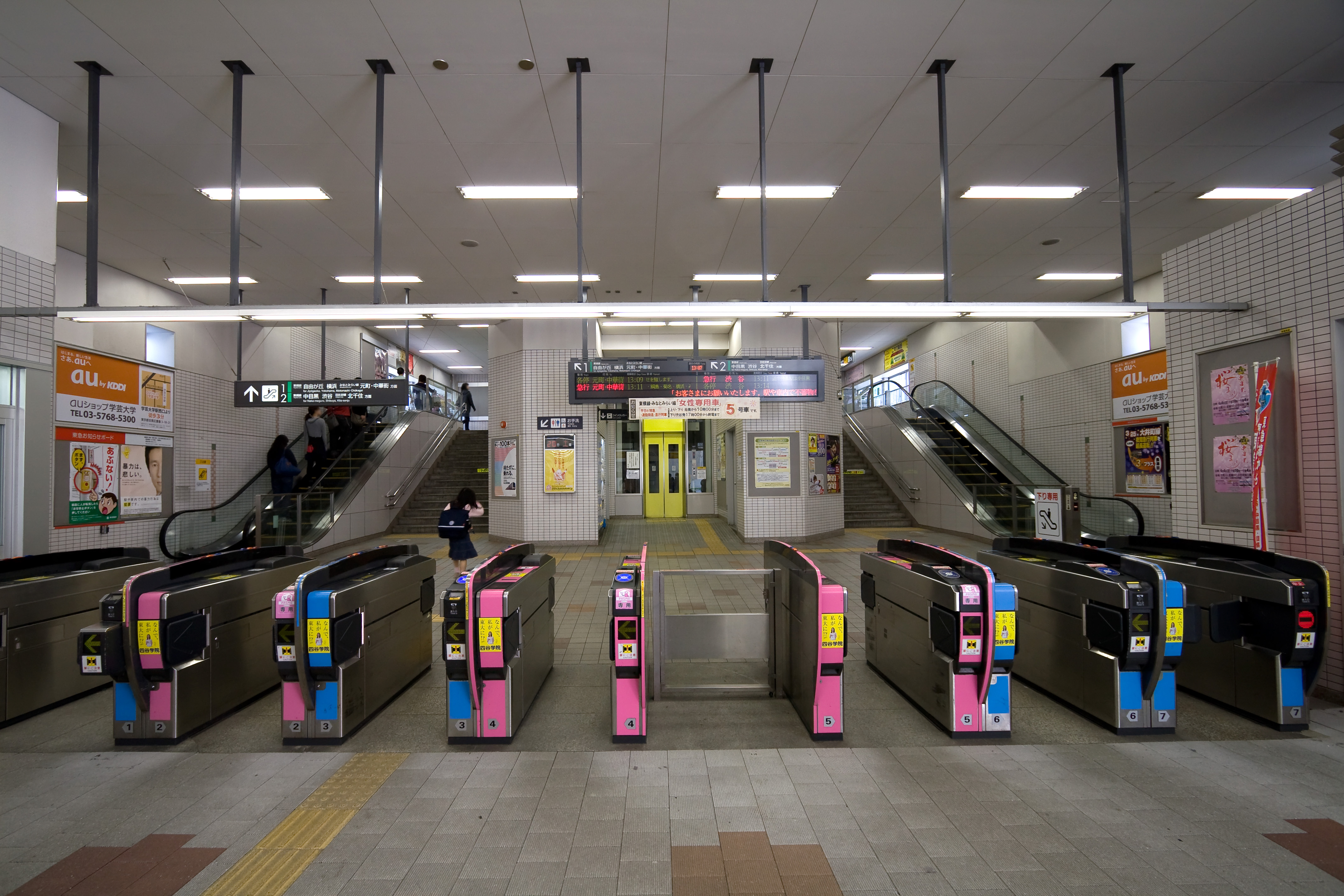 Gakugei-daigaku Station Gates